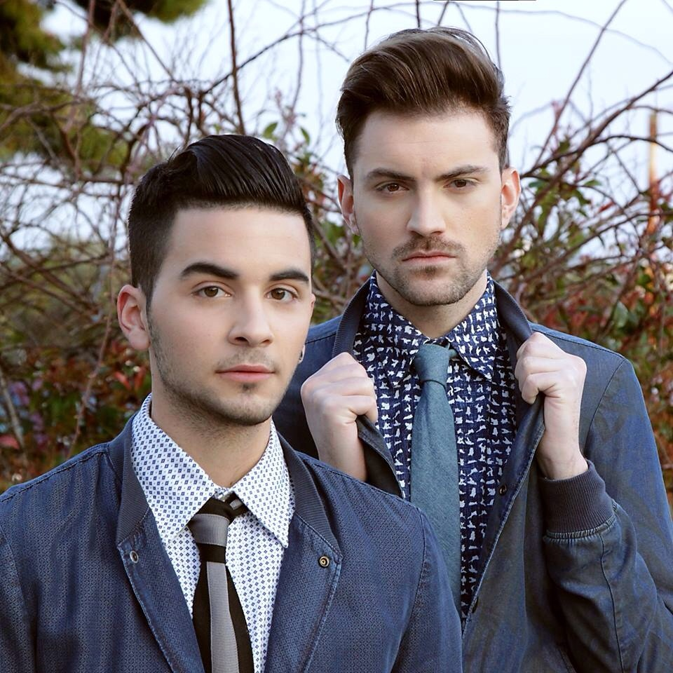 Freaky Fortune (promo photo shooting 2014)